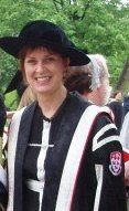 Heather Munroe-Blum. Recteur, université McGill. This is a picture I took at 2007 spring convocation at Mcgill University